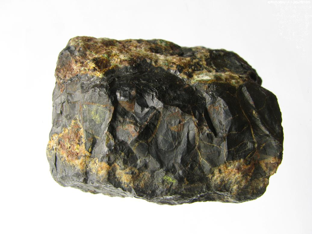 Pitchblende - Zálesí (Javorník) uranium mine, Czech Republic.